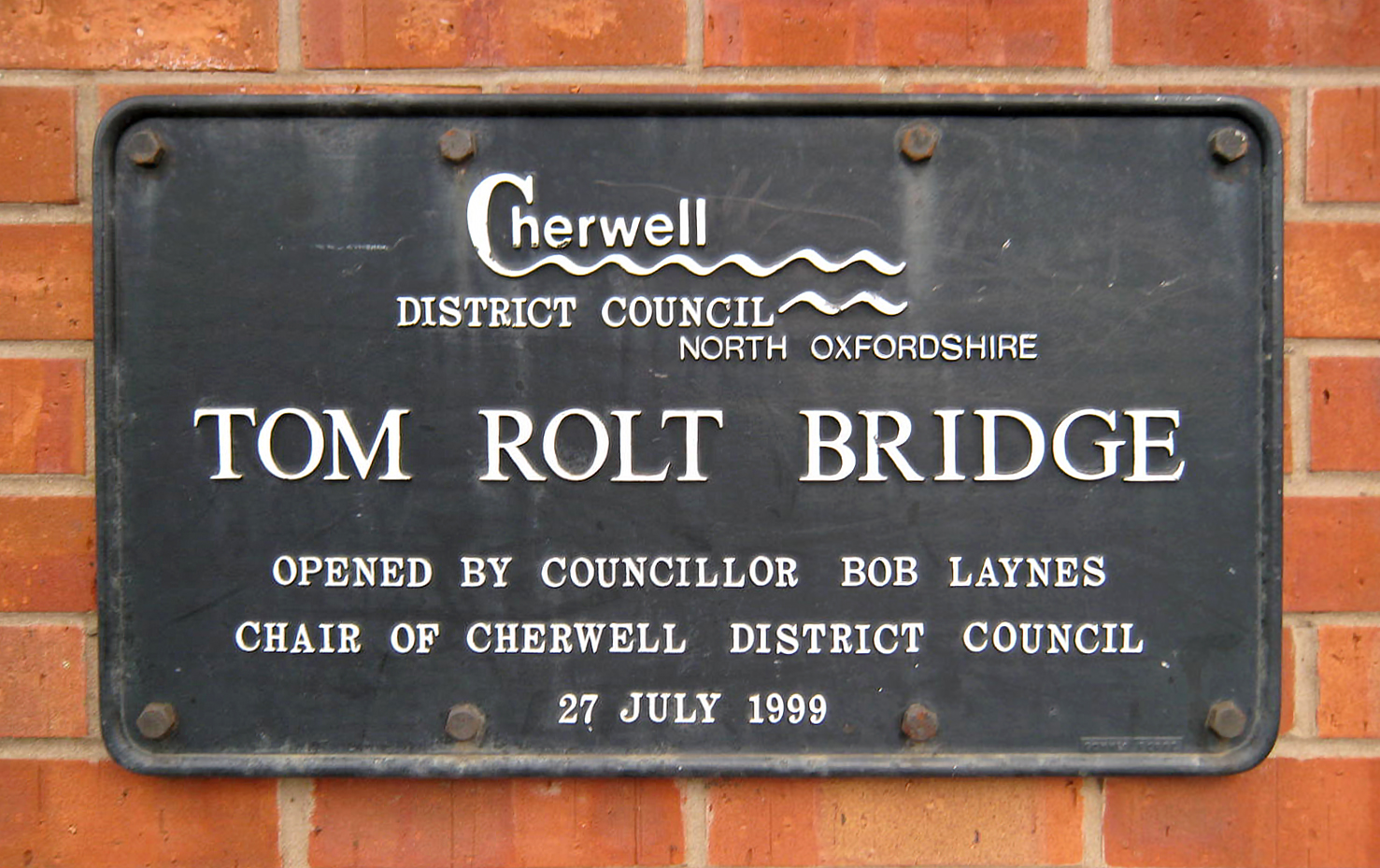 Oxford Canal Bridge 164, Tom Rolt Bridge, at Banbury, Oxfordshire: plaque on retaining wall at the side of Cherwell Drive